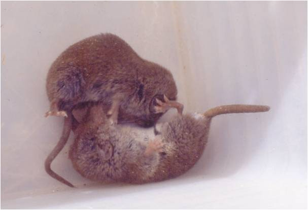 Crocidura pachyura